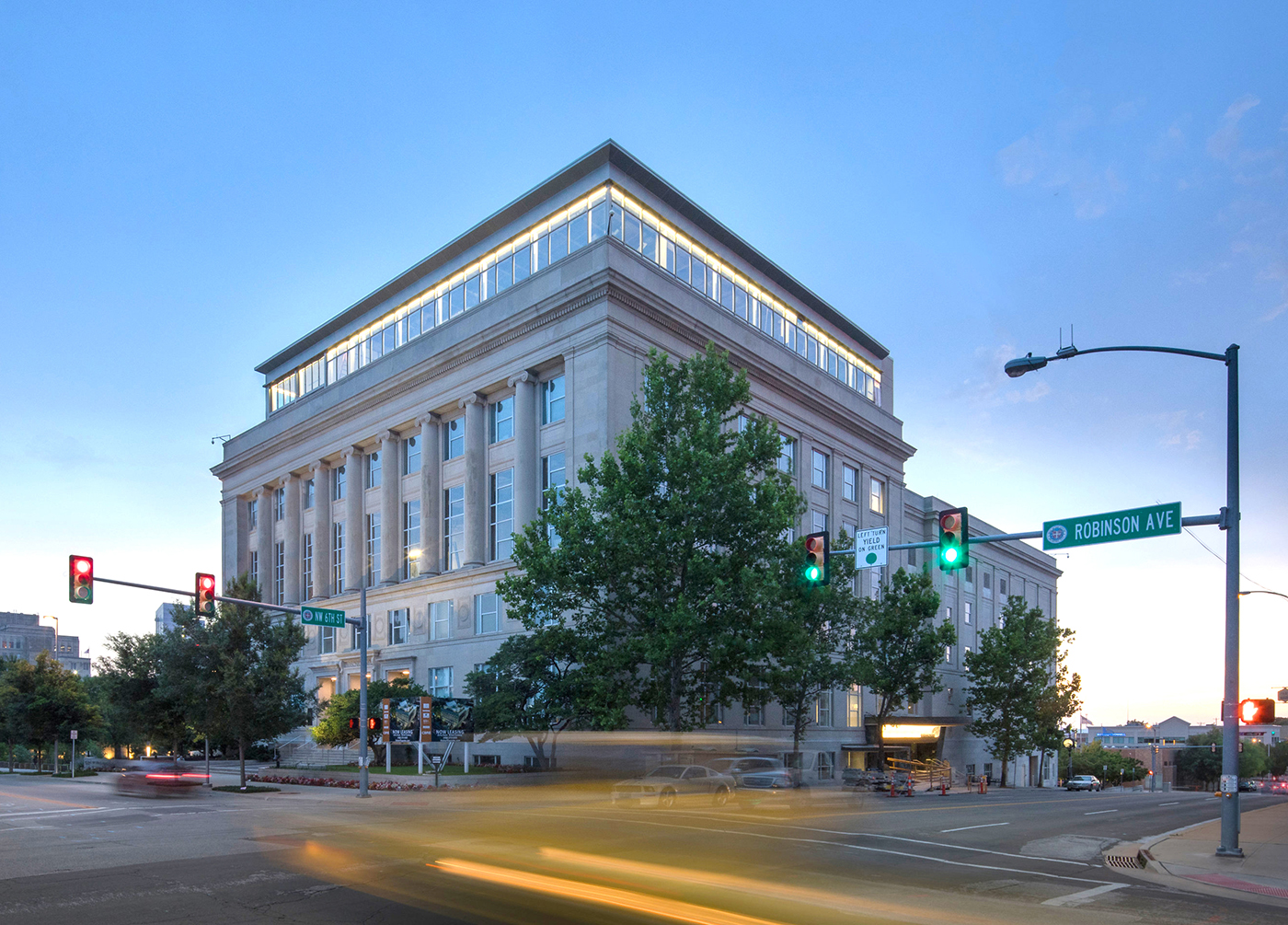 Exterior of The Heritage 2017